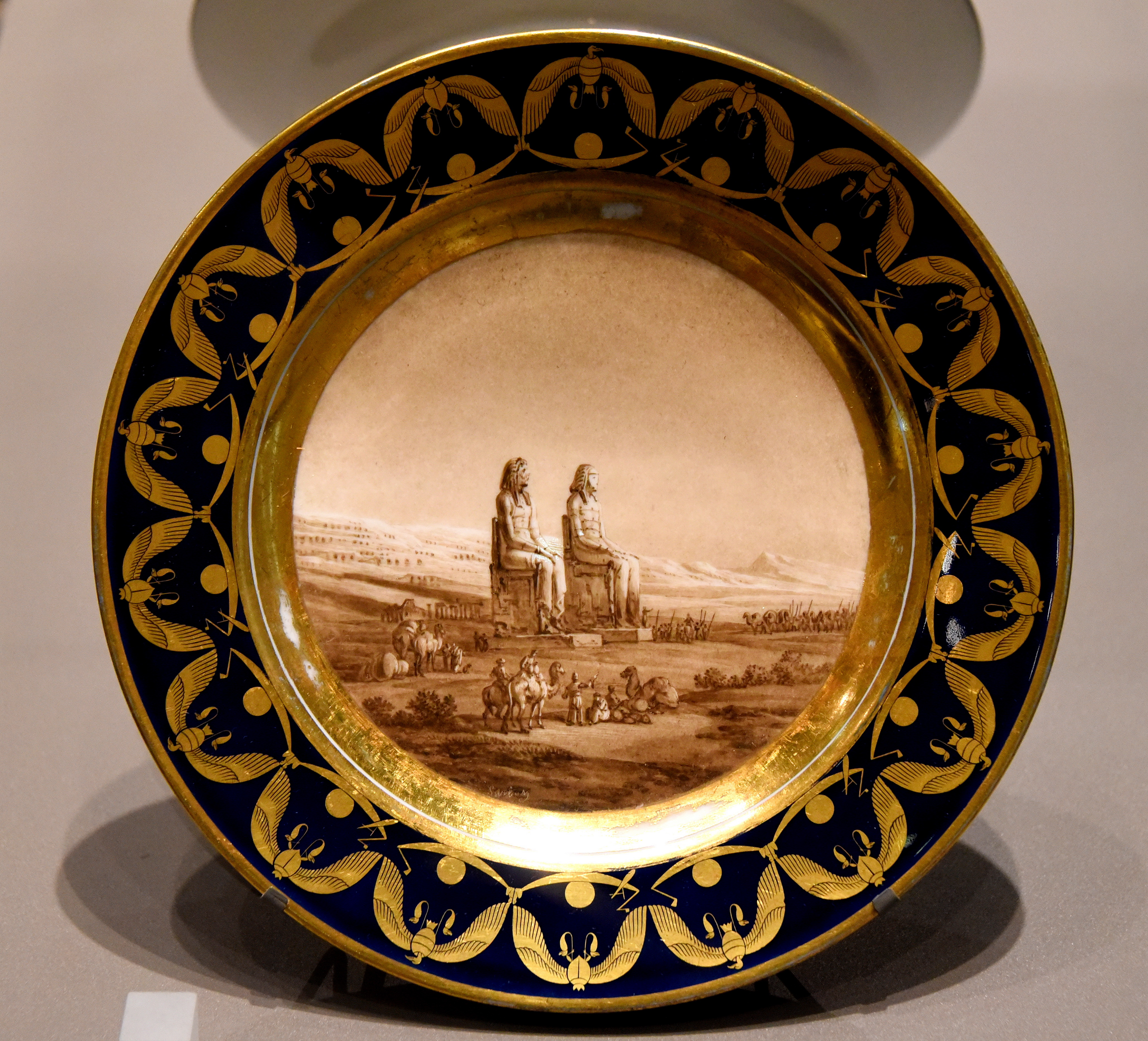 Plate showing statues of Amenhotep III at Luxor, Egypt. Commissioned by Napoleon as a present to Josephine but she rejected it. From Paris, France. The Victoria and Albert Museum, London. This plate was part of 72 ones painted with Egyptian scenes, which were commissioned by Napoleon I of France as a present to Josephine when he divorced her to marry a princess from Austria. Josephine rejected the gift. Made at the Sèvres factory. Painted by Jacques-Francois-Joseph-Swebach-Desfontaines after an illustration by Dominique-Vivant Denon. Designed by Adolphe-Theodore Brongniart. Porcelain painted in enamels and gilded.